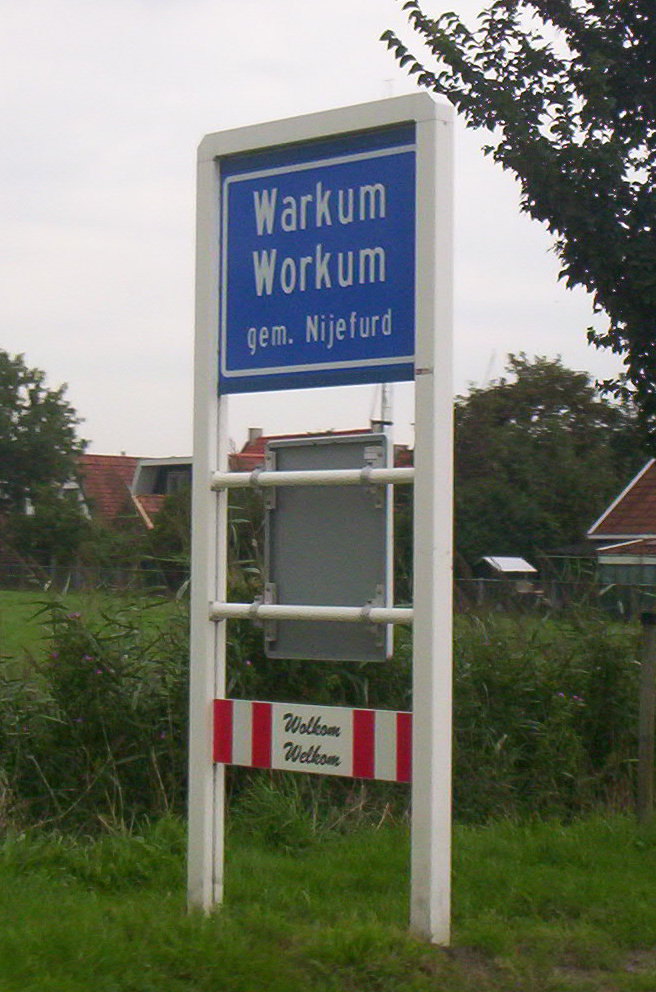 Bilingual plate in Workum, Friesland, Netherlands